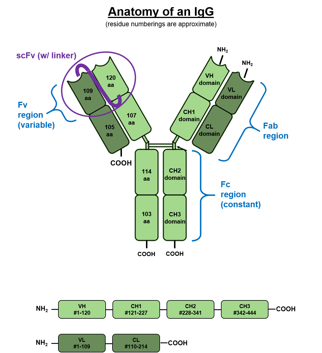 This image depicts the various domains and regions of a typical IgG. Note that residue addresses are approximate.